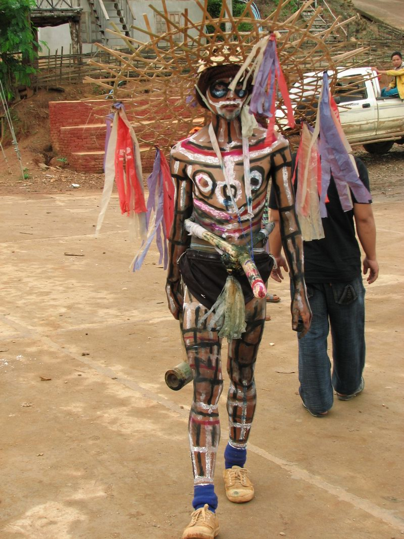 Akha excorcist in a village in northern Thailand wearing a giant wooden penis and carrying a sledgehammer to expel evil spirits out of the village.